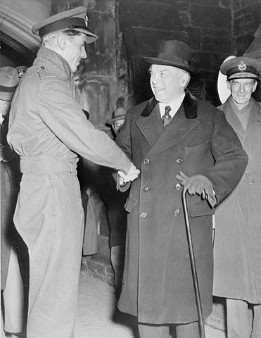 George Beurling, Canadian WWII ace, shaking hands with William Lyon Mackenzie King.